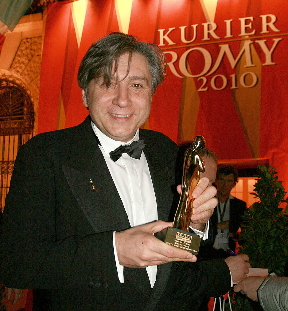 Werner Boote at the Romy TV awards (Hofburg Imperial Palace in Vienna)